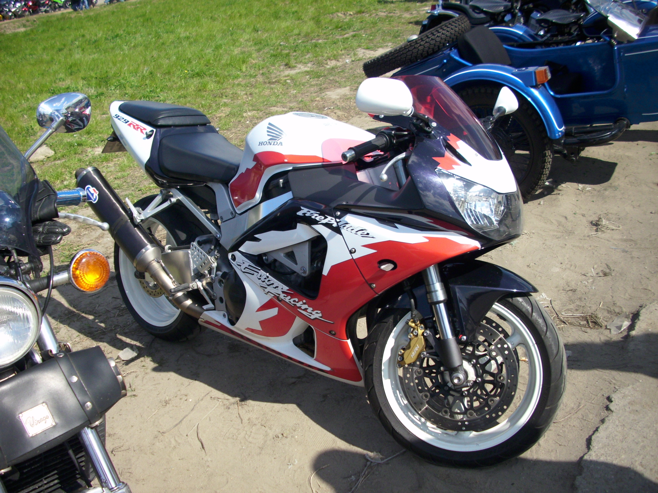 Honda CBR 929RR Fireblade